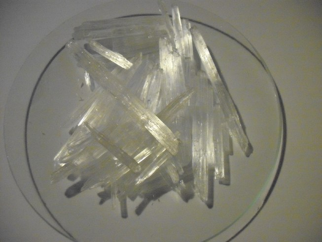 Menthol crystals